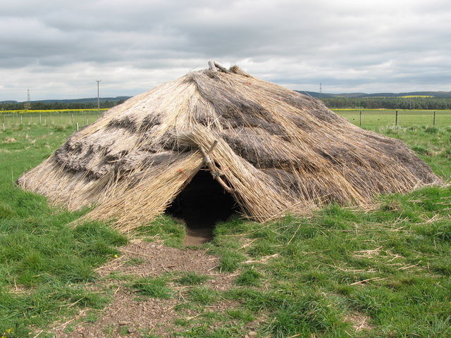 Maelmin - reconstruction of Mesolithic hut Maelmin is a heritage site that tells the story of ancient Northumberland. The site was opened in 2000. There are three full-size archaeological reconstructions. This reconstruction is of a Mesolithic hut excavated in the summers of 2000 and 2002 at Howick on the Northumberland coast. Its construction was documented in the BBC's 'Coast' series.